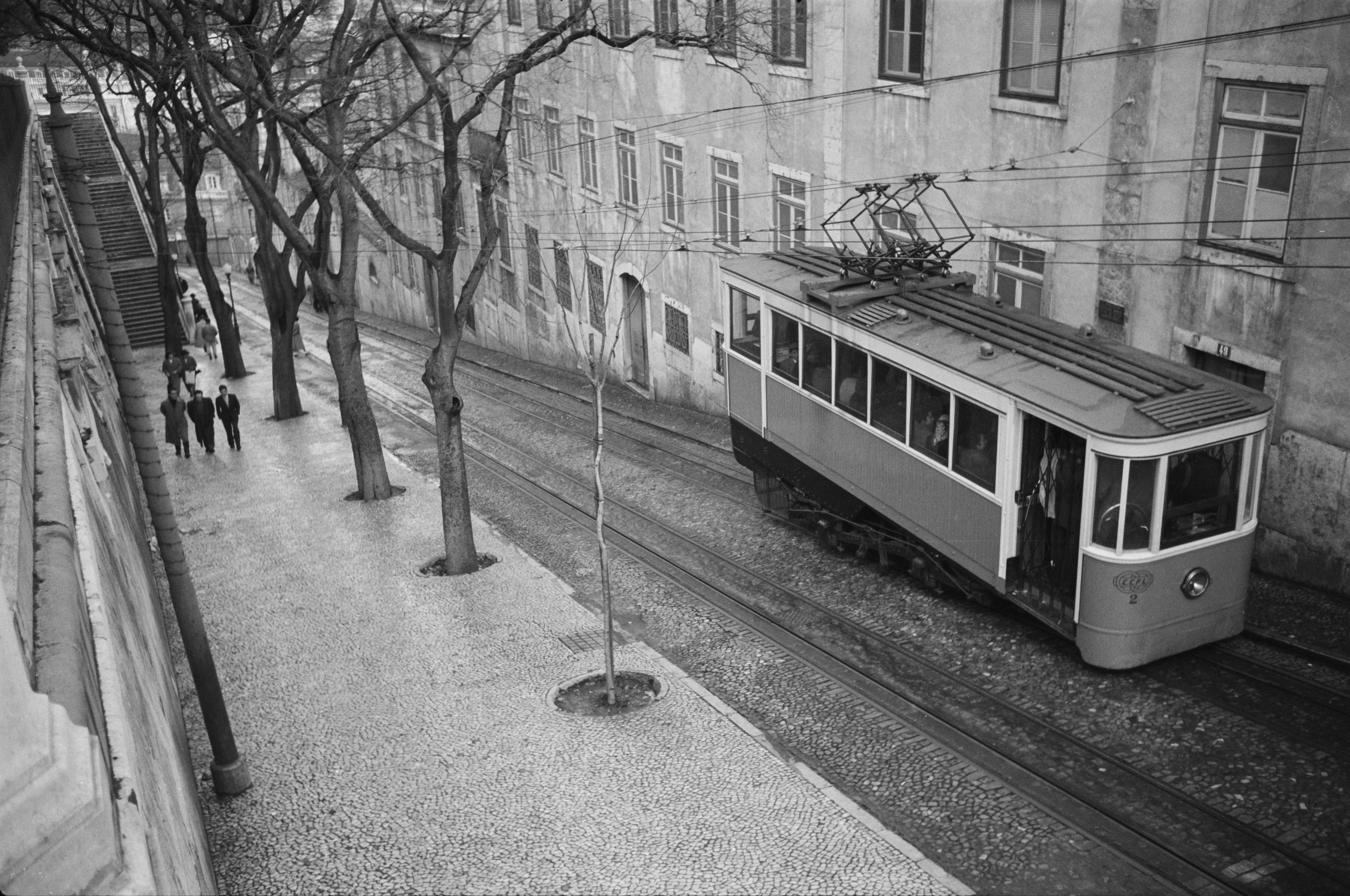 View from Lisbon